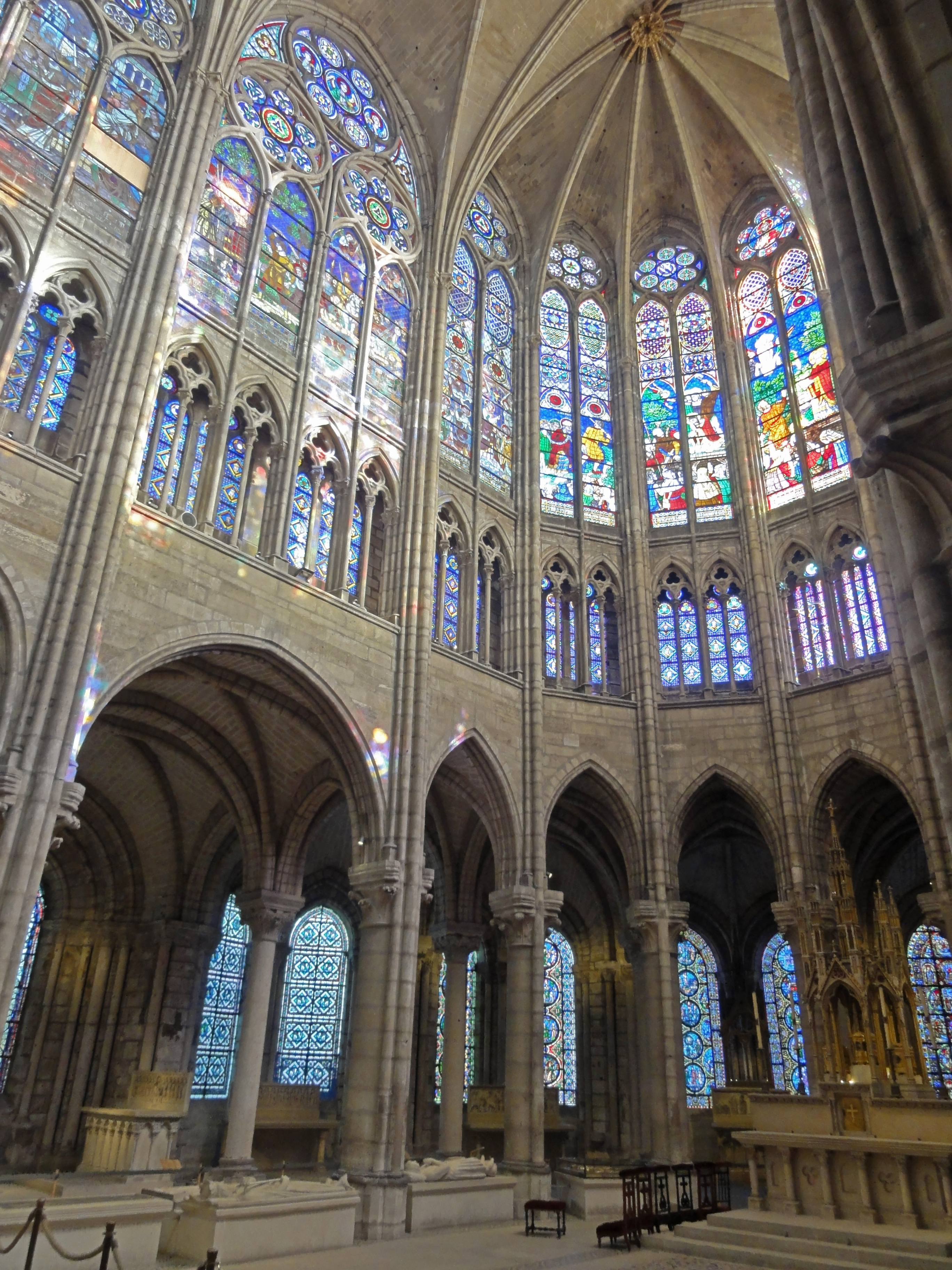 Saint-Denis Basilica, Gothic style, Paris, France.